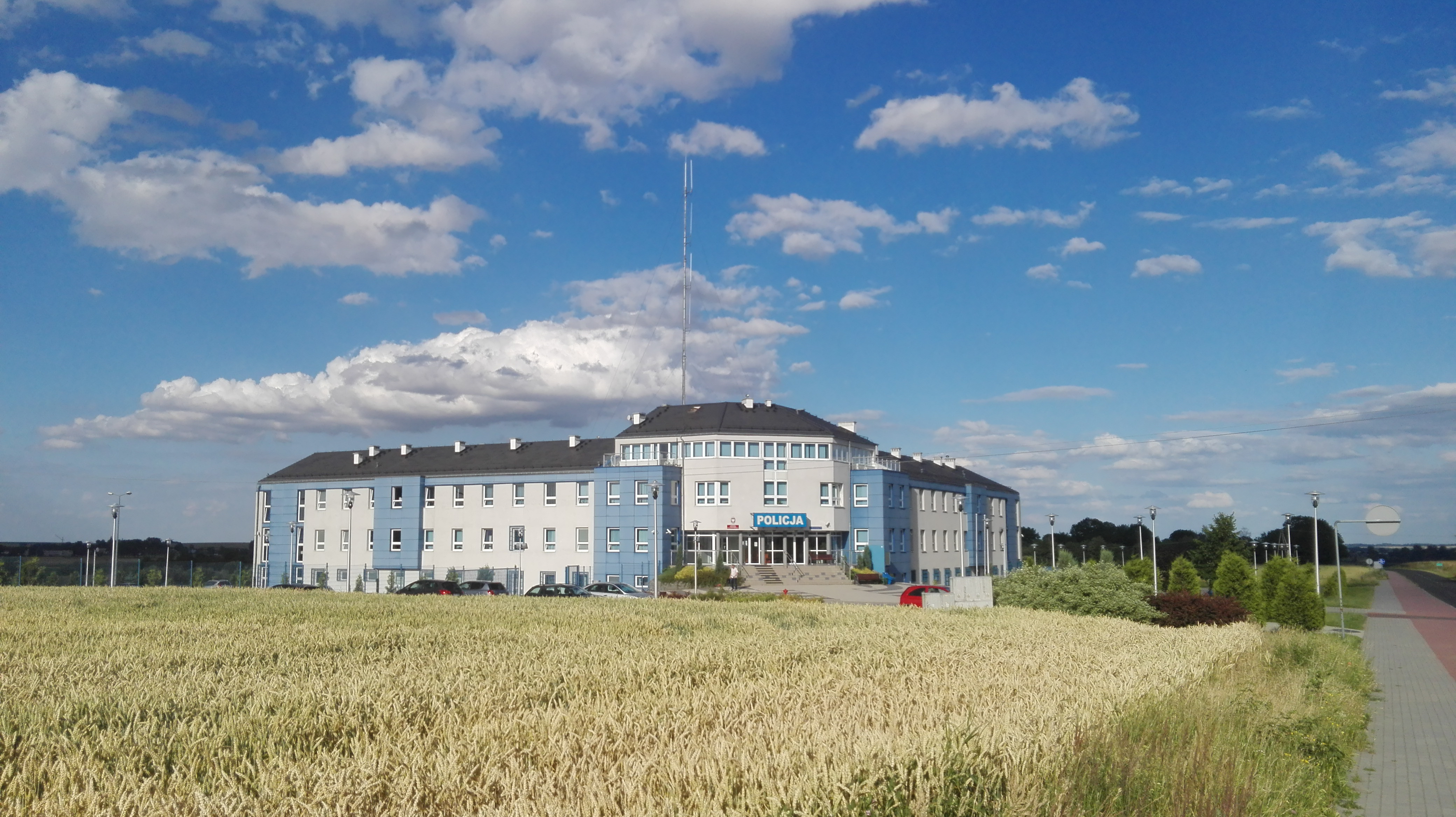 39 Księdza Aleksandra Skowrońskiego Street in Prudnik